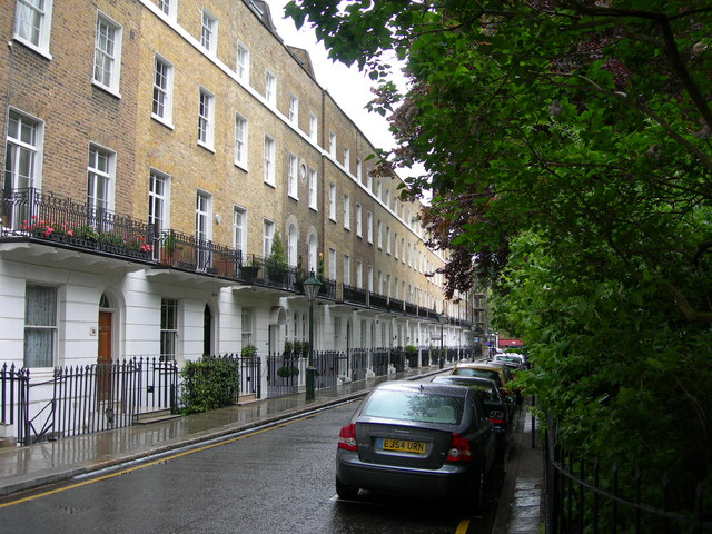 Brompton Square, SW3. Showing some houses to the left and their communal garden to the right, seen in more detail here 445777